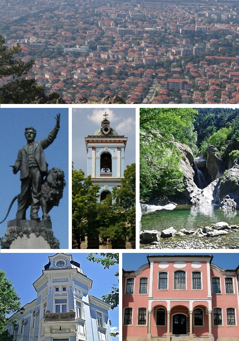 Mosaic of landmarks in Karlovo